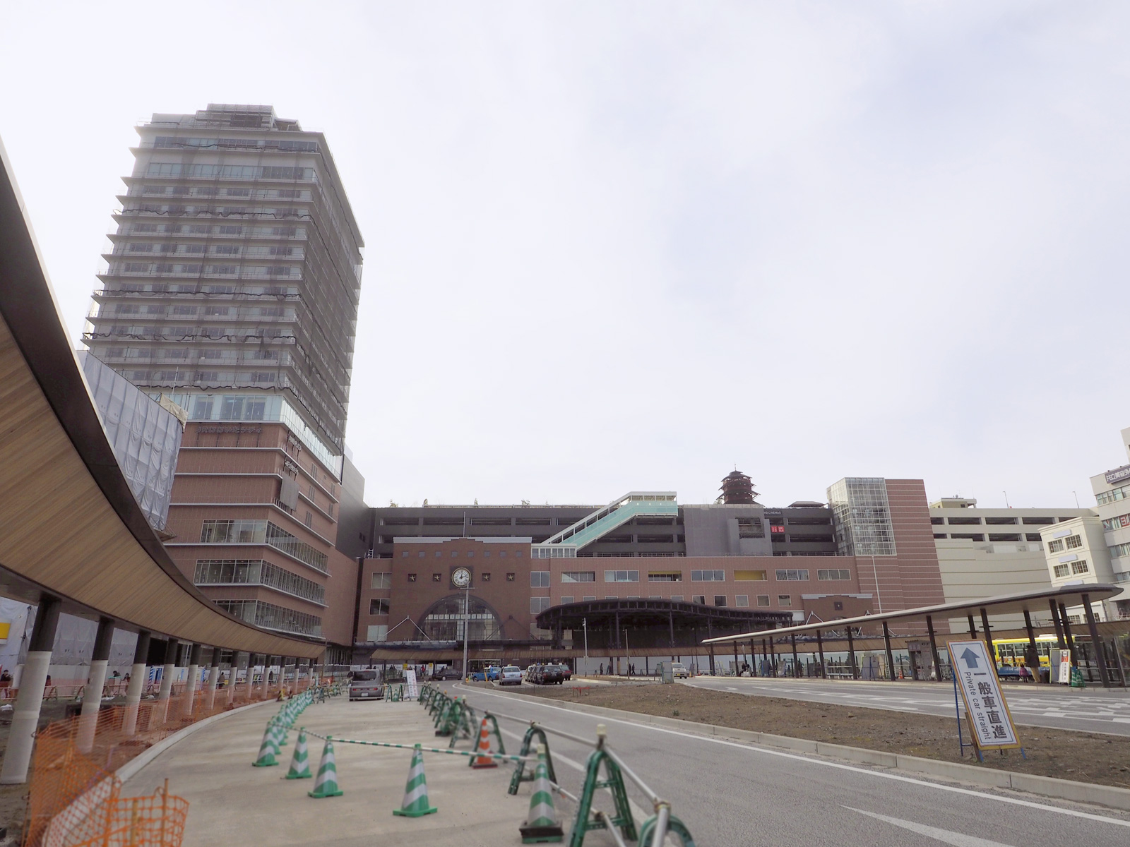 Oita Station